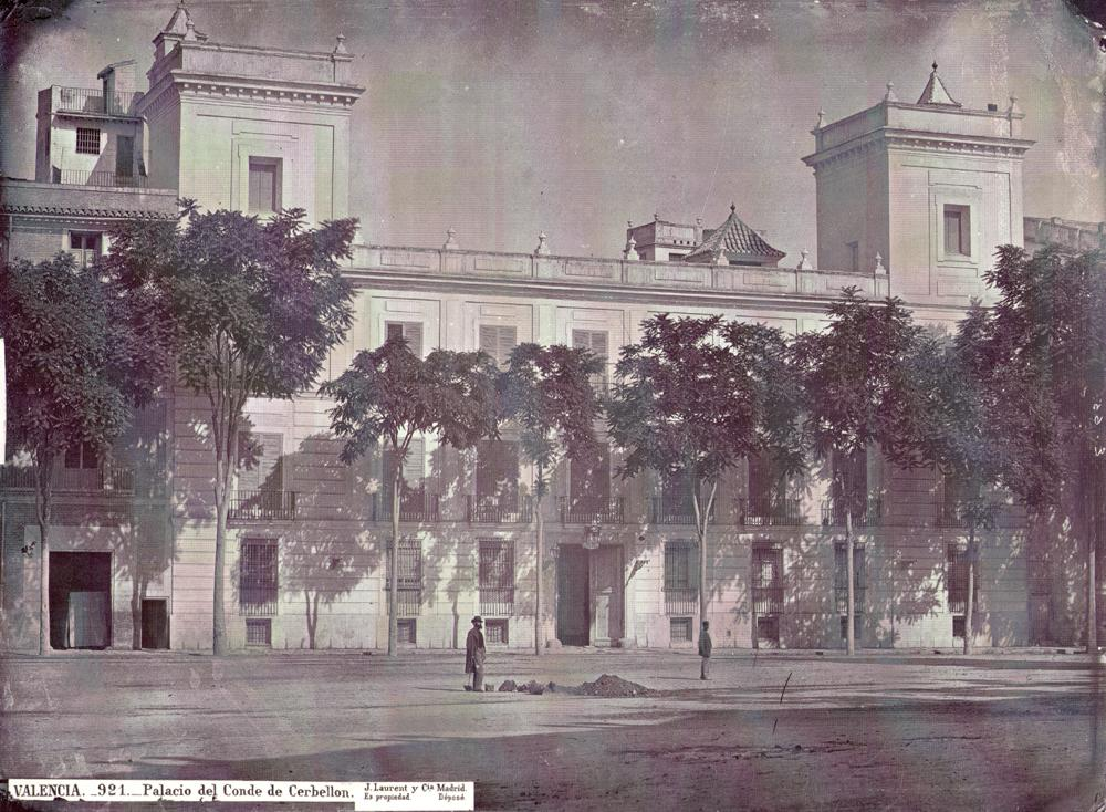 Old photo of the Palau de Cervelló, València.